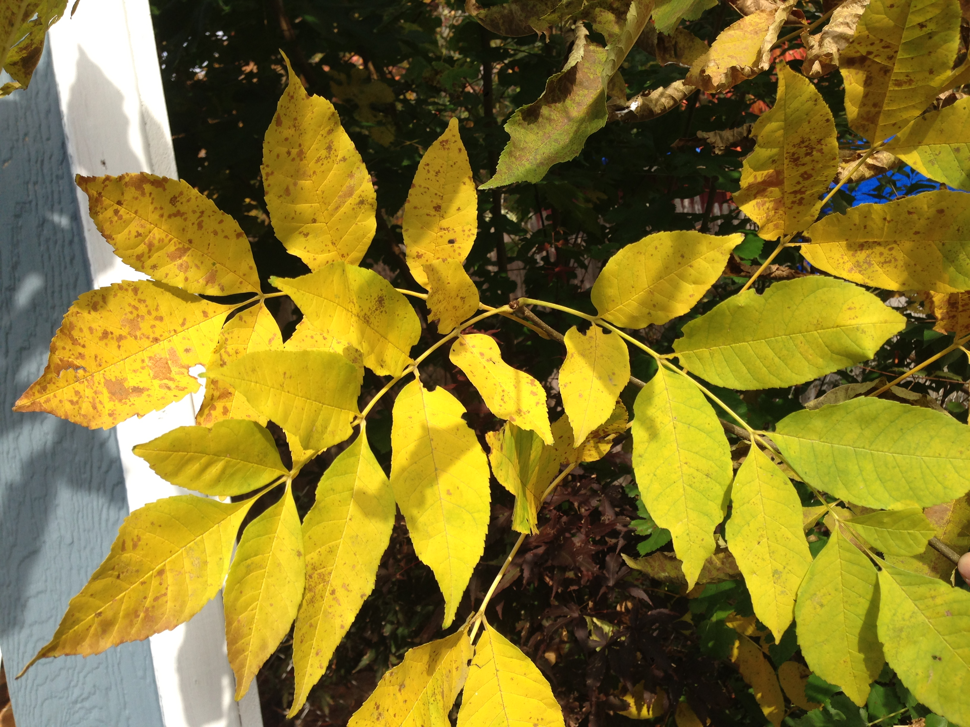 Green Ash foliage during autumn coloration in Ewing, New Jersey